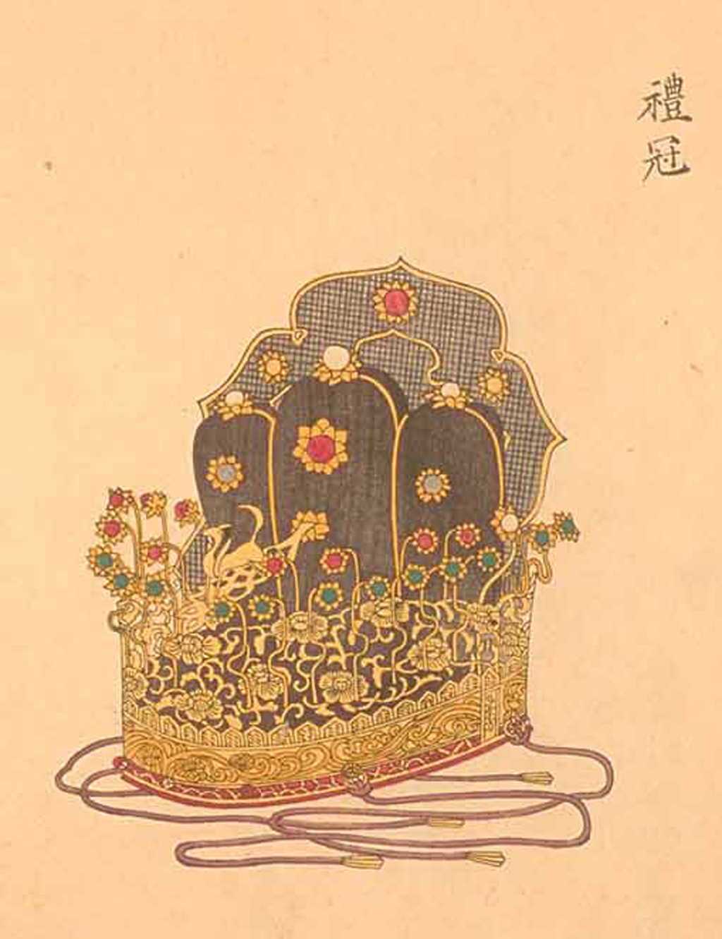 A Japanese crown "Raikan"